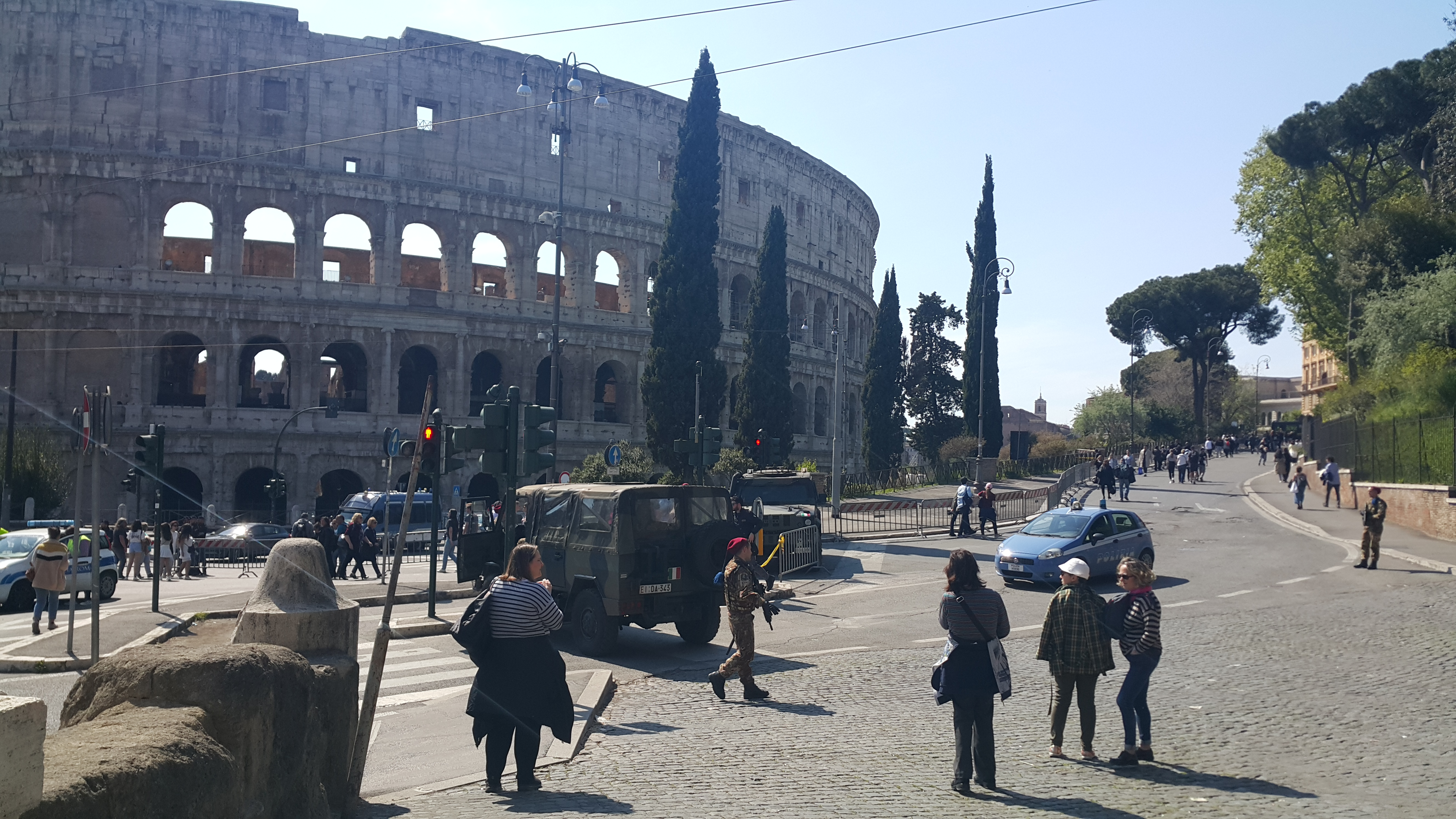 Colosseum, Rome security on Easter 2019 high alert